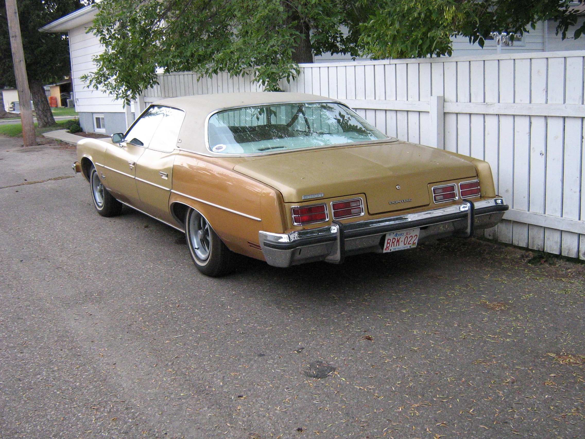 Canadian Pontiac Parisienne Brougham with a 455cid V8